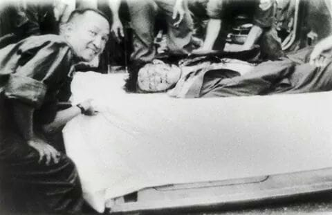 Diem's body and ARVN officer, military coup 1963